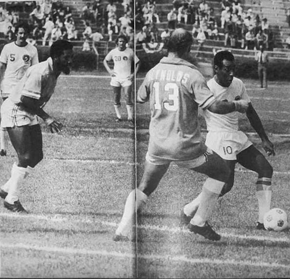 Pelé in action in his debut v Dallas Tornado, pursued by Richard Reynolds (13). Other players are Alfredo Lamas (5) and Mike Dillon (20).